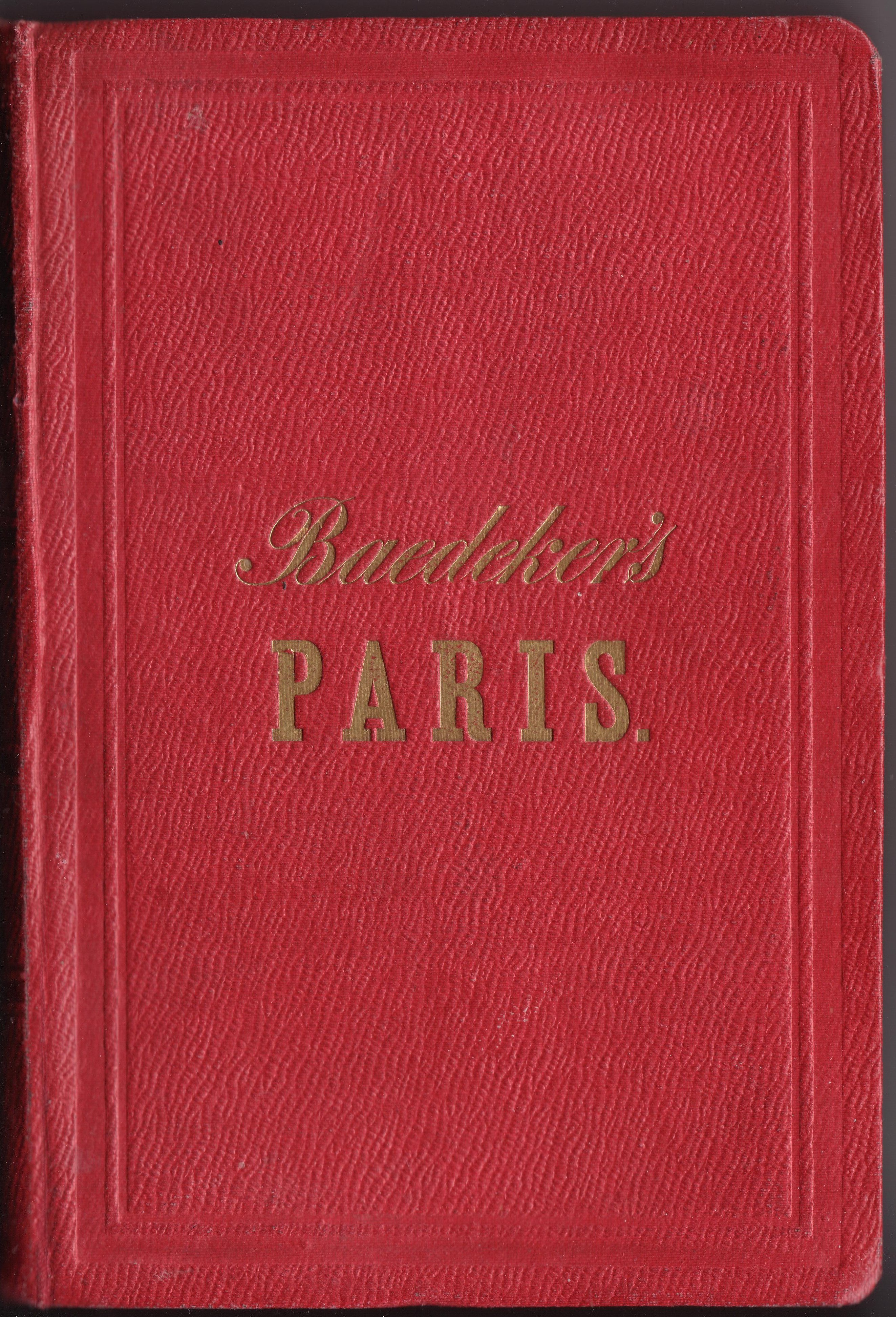 Baedeker, Paris 1860, Front cover